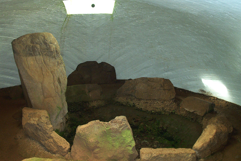 Interior of modern cairn at Cairnpapple Hill showing an excavated burial.